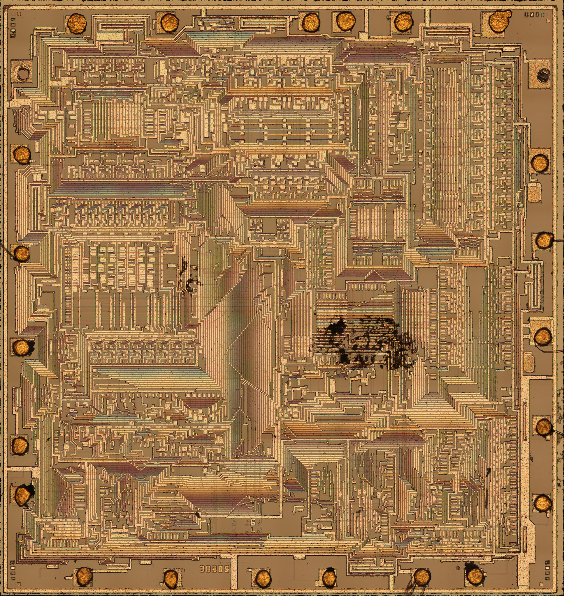 GI AY-3-8500 top metal die shot